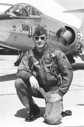 Captain George J. Marret by Lockheed F-104